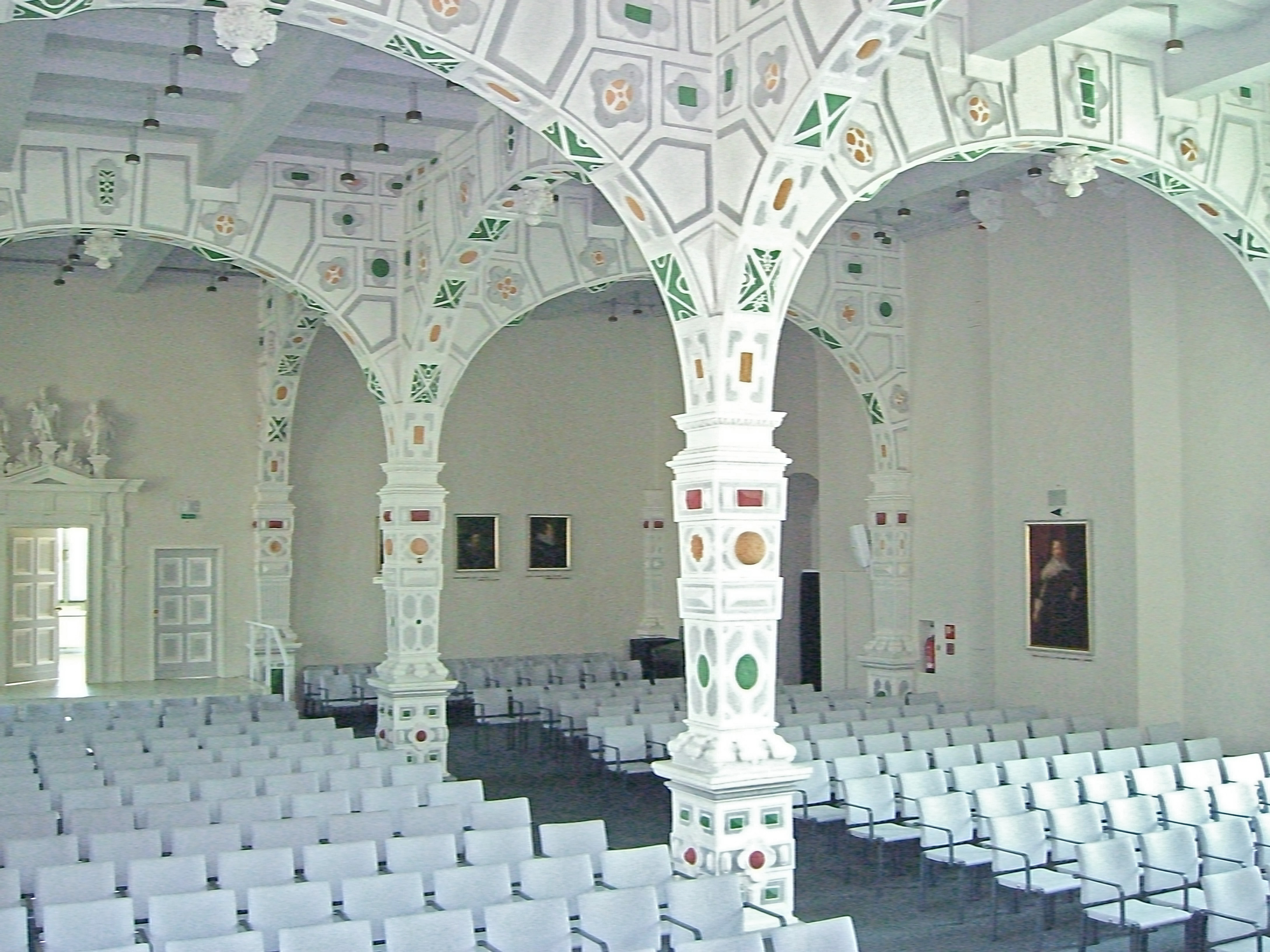 Auditorium hall of the former university of Helmstedt